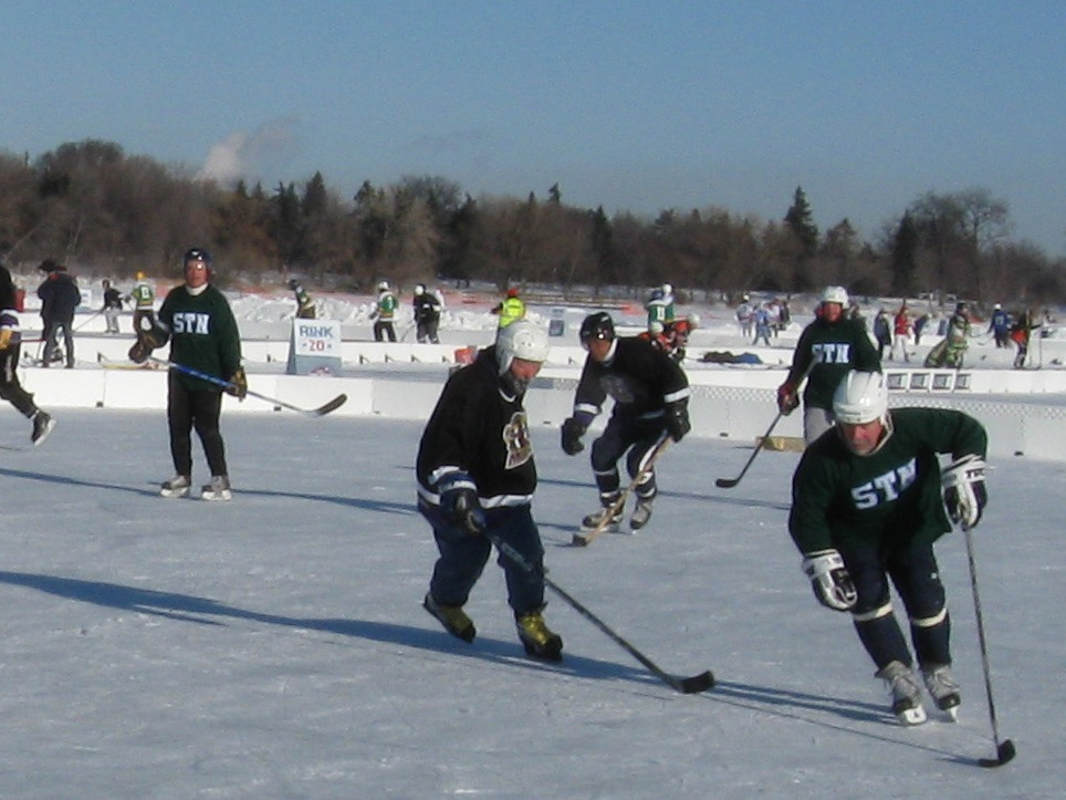 The US Pond Hockey Championships are held on Lake Nokomis. The four-day tournament uses twenty-five rinks to play a version of 4 on 4 hockey with low, dual-slotted boxes for goals. This particular game featured two teams in the Over 50 bracket: the hometown Mpls. Moose and Saint Nix, a group from New England.